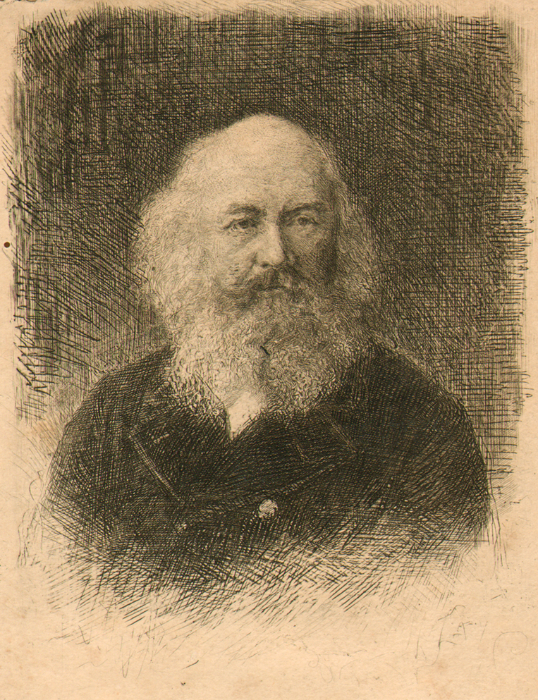 Portrait of Dmitry Rovinsky